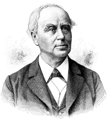 Portrait of Nicolaus Hermann. Sachseln. Xylographie Nr. 10 (1888)